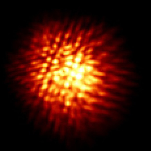 R Doradus in infrared, New Technology Telescope (ESO) picture